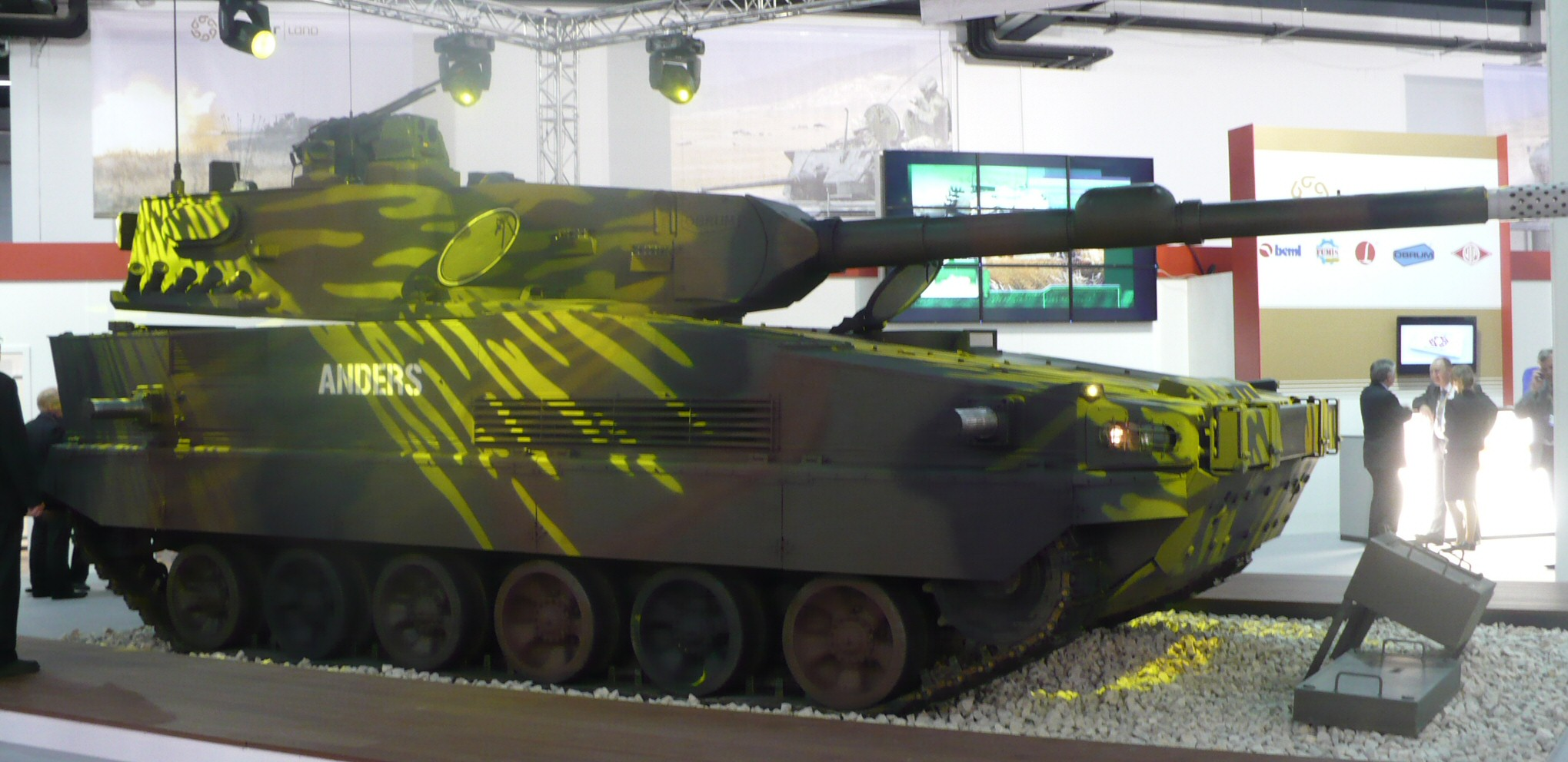 Polish light tank Anders - technology demonstrator. MSPO 2010.